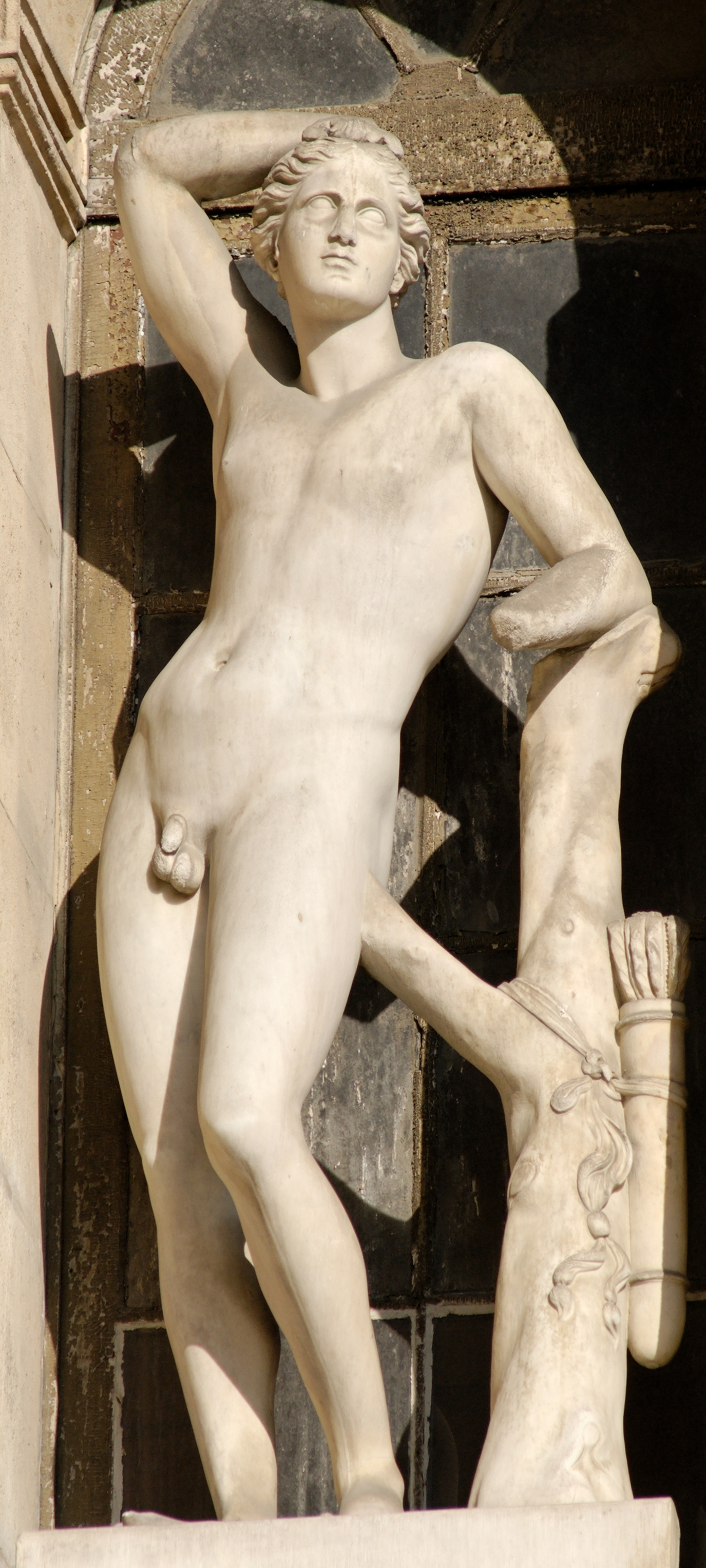 Apollon of the Apollino type. Stone, 19th century copy after a Roman statue of the 1st–2nd century CE now in the Galleria degli Uffizi, Florence. First floor, West façade of the Cour Carrée in the Louvre palace, Paris.